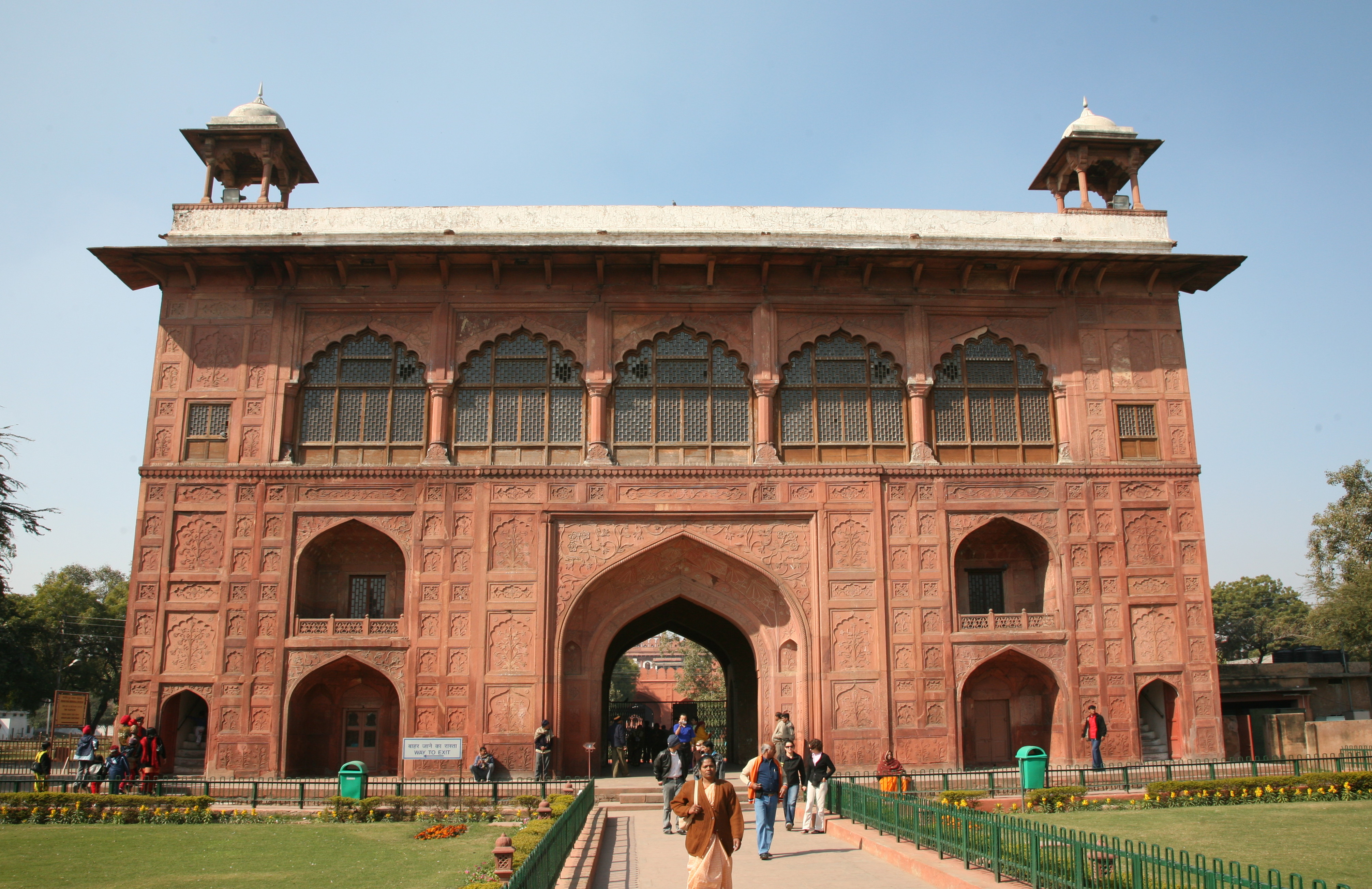 Naqqar Khana at the Red Fort, Delhi